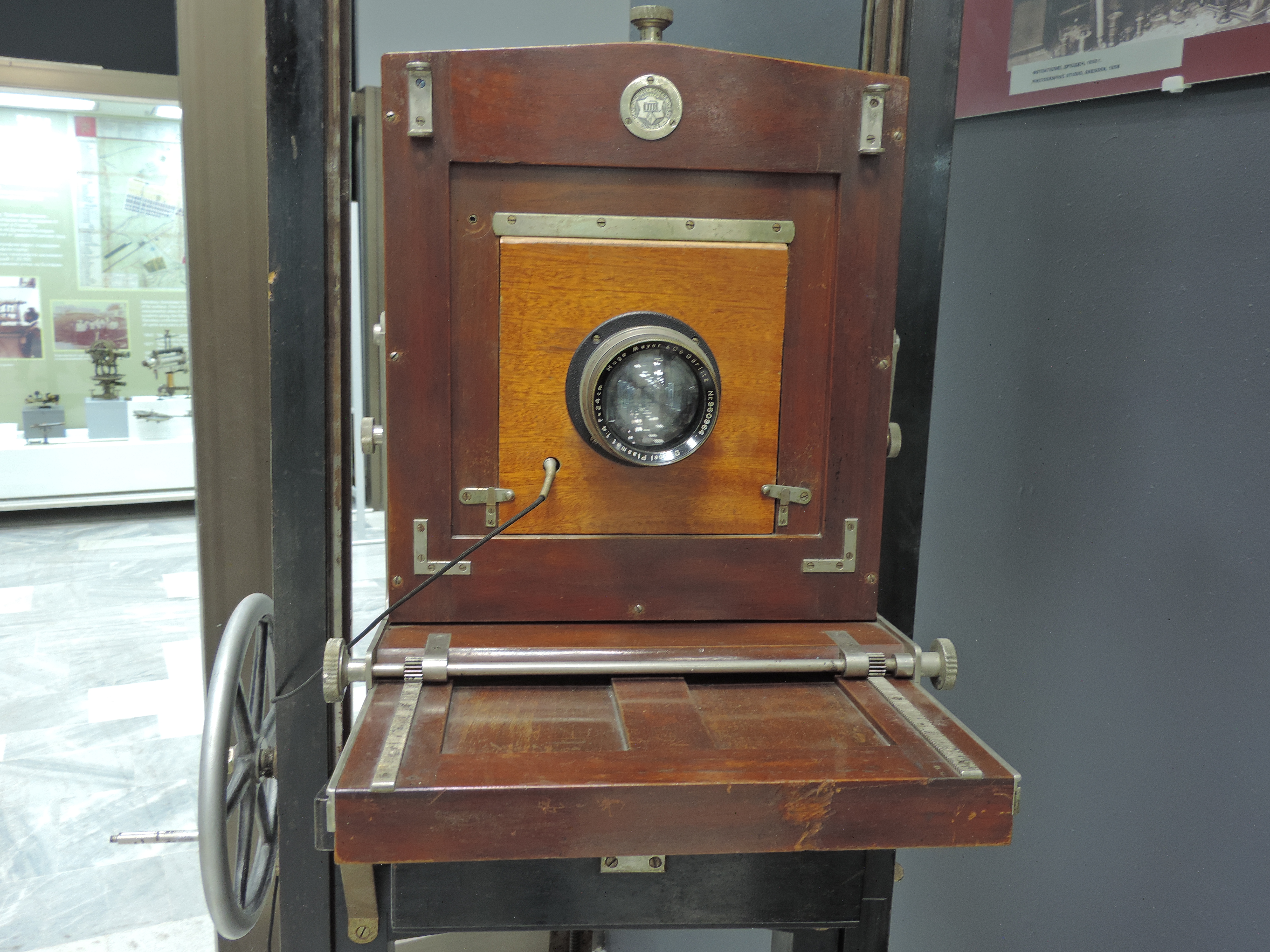 A studio camera "Görlitz" Germany, 1930's Produced by "Neue Görlitz Camera-Werke". Objective lens "Doppel plasmat" with 24 cm focal lenght, produced by "Hugo Meyer & Co".